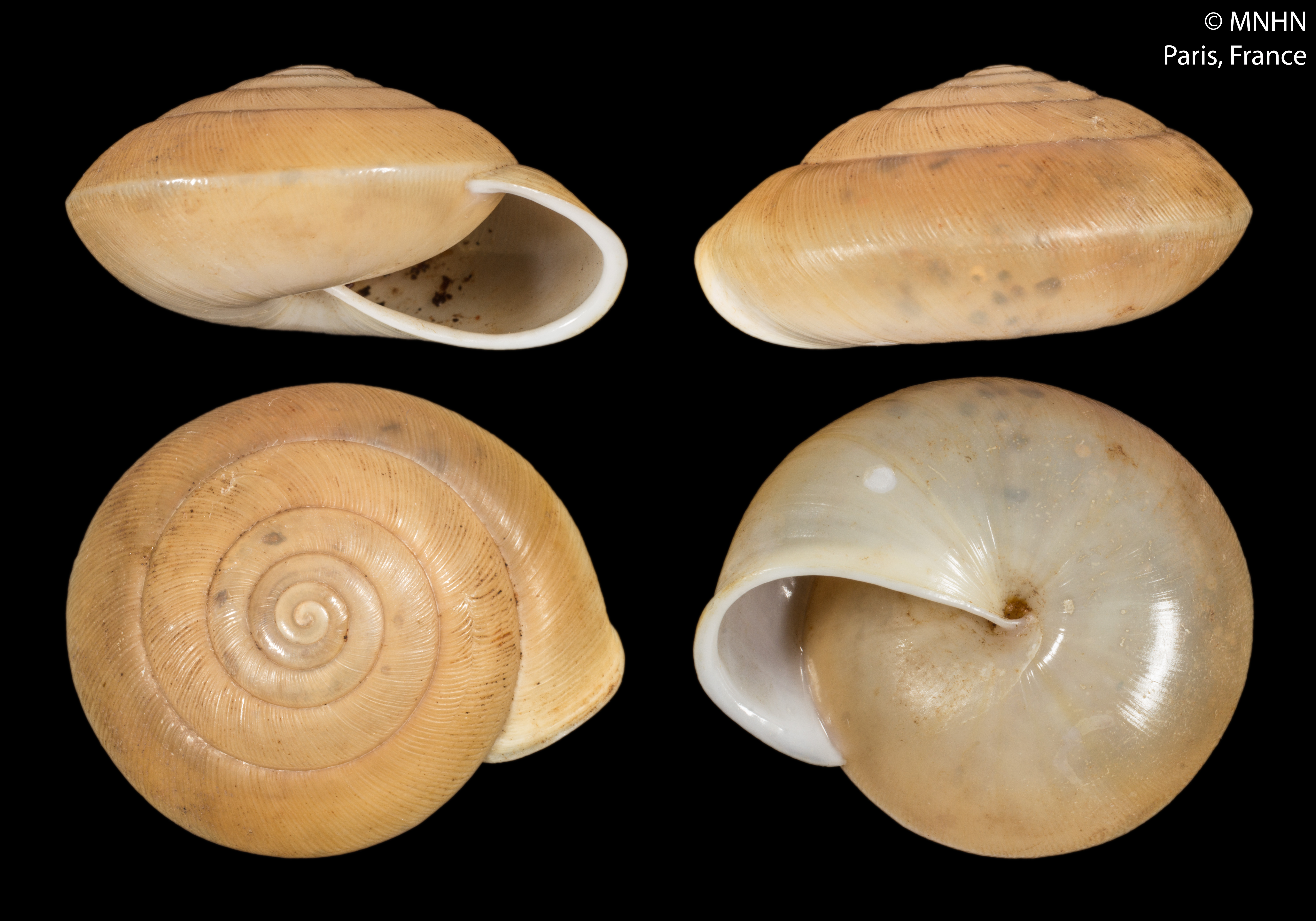 PRESERVED_SPECIMEN; Helix weinkauffiana Crosse & P. Fischer, 1863; Type status: SYNTYPE; Identified by: N/A; Individual count: 3; Event date: N/A